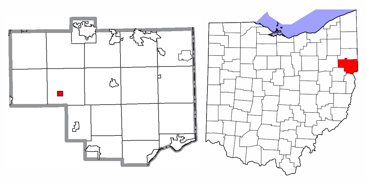 Map highlighting Village of Hanoverton, Columbiana County, Ohio.